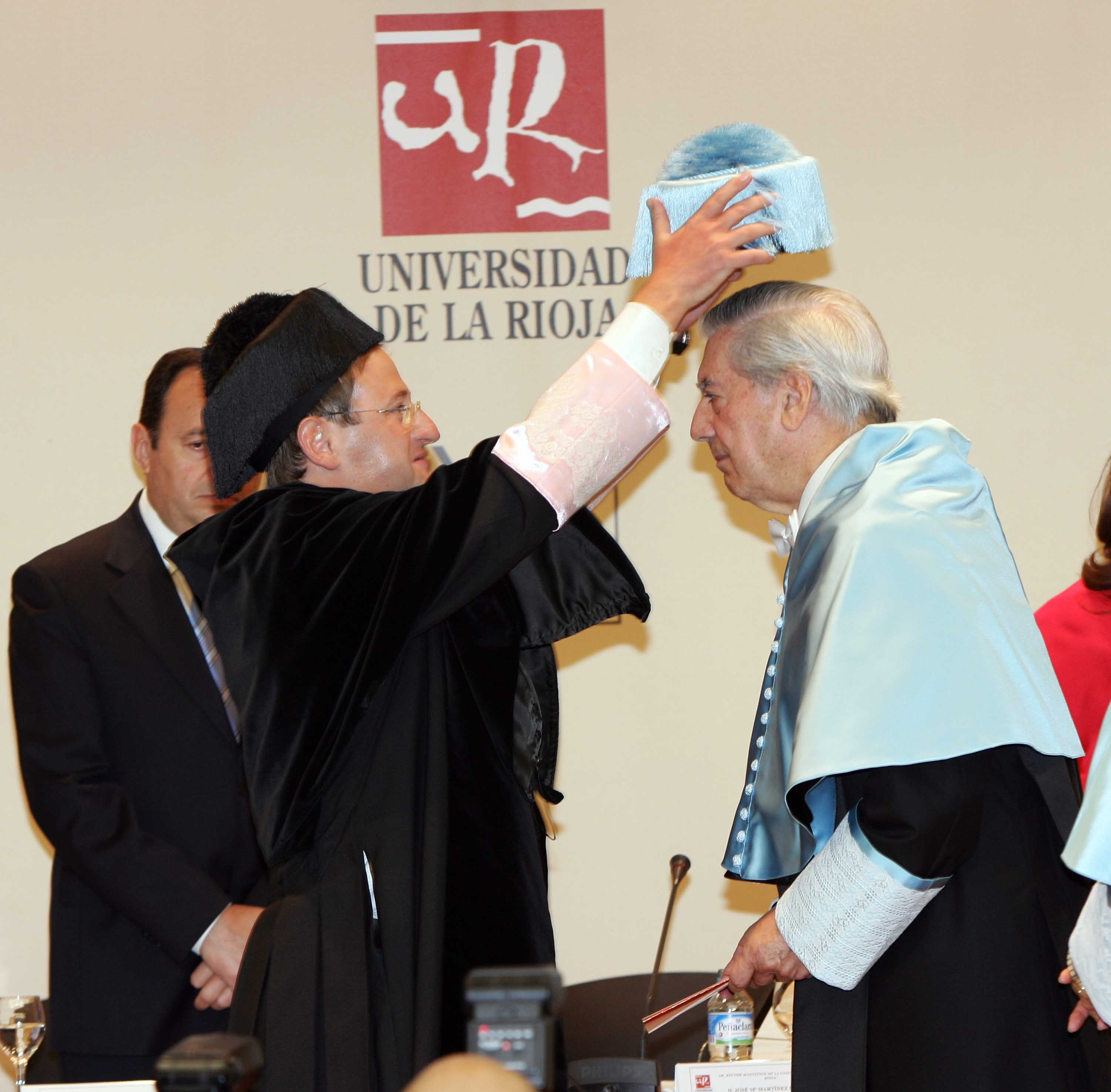 Mario Vargas Llosa is awarded the Honorary Degree from University of La Rioja, Spain